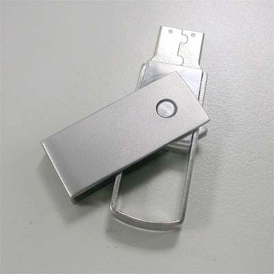 A metal USB flash drive produced by xing ye electronic co.,ltd